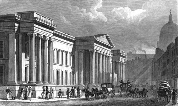 The 19th century headquarters of the General Post Office in St Martins-le-Grand in the City of London. Antique steel engraved print by Thomas Hosmer Shepherd (1793 to 1864) who was employed by Frederick Crace for a series of drawings of London. Many of the engravings include figures, carriages or boats . Originally produced for Shepherd's "Metropolitan Improvements; or London in the Nineteenth Century" (1826 to 1827). (A present day view of the same location)